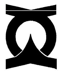 Mashiko Tochigi chapter